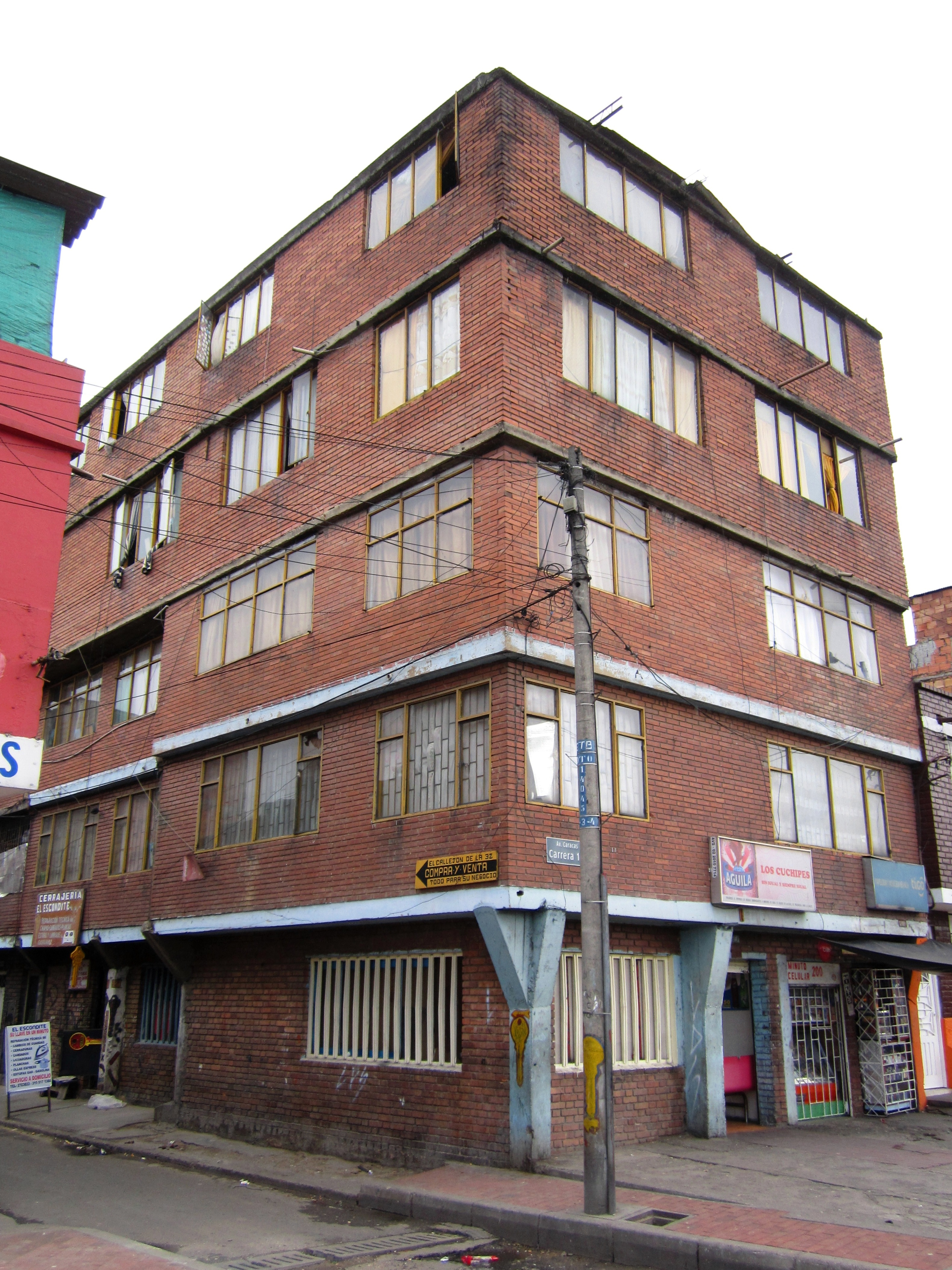 Bogotá